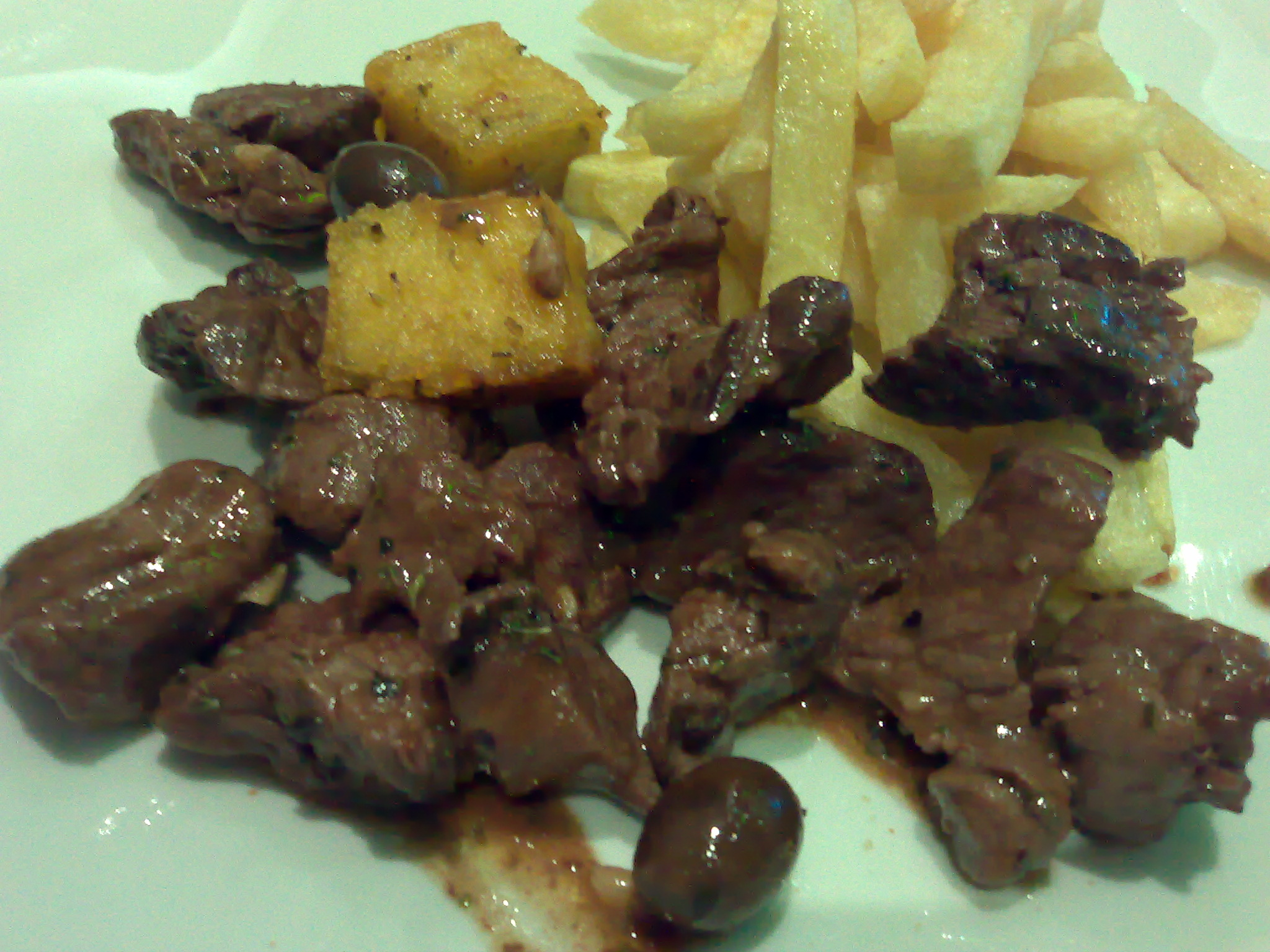 "Picado", a typical dish from Madeira, Portugal.